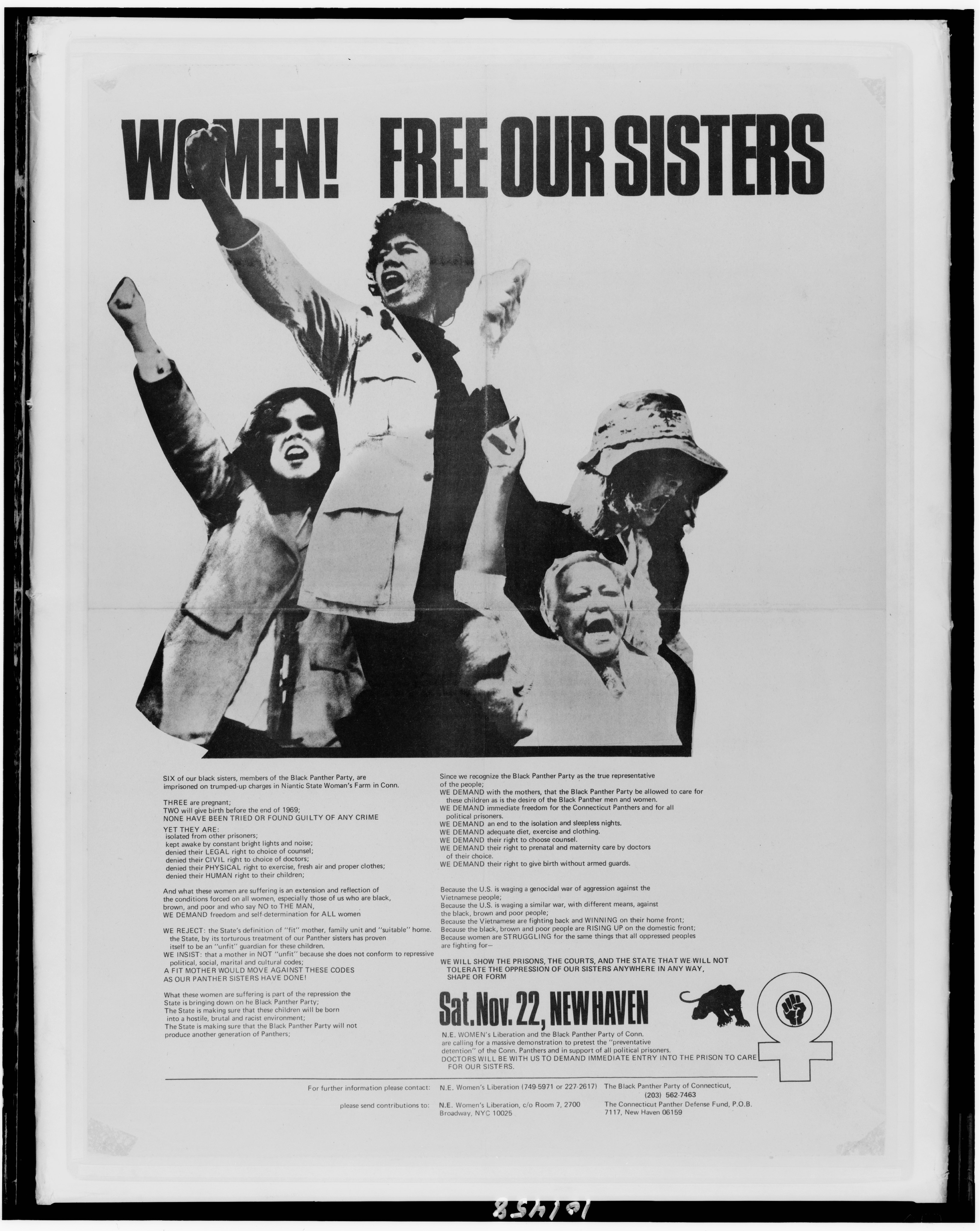 Title: Women! Free our sisters Abstract: Poster showing four women demonstrating for release of six members of the Black Panther Party from the Niantic State Women's Farm in Connecticut. Physical description: 1 print ; (poster format) Notes: Published in: Prop art / Gary Yanker. New York : Darien House, 1972.; Gift; Gary Yanker; 1975-1983.; Title from item.